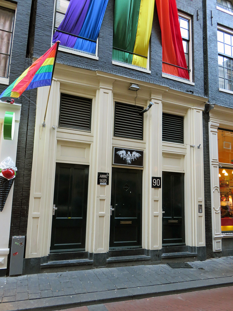 The gay leather bar The Eagle at Warmoesstraat 90 in Amsterdam. Here during the Amsterdam Gay Pride of 2015.